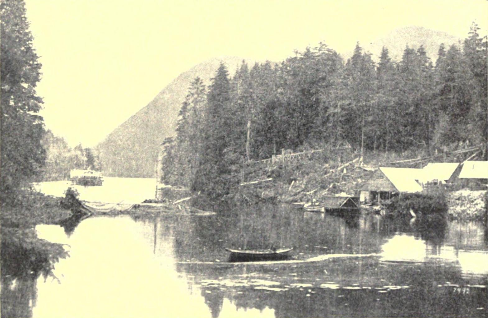 This was captioned "Loring, a fishing village". Loring, on the west side or Revillagigedo Island, had a cannery and a fish hatchery. Photographer's number appears to be 7992. The Alaska State library has a copy of this image [1], which they attribute to William H Partridge. They say the ship in the background at left is probably the SS Ancon